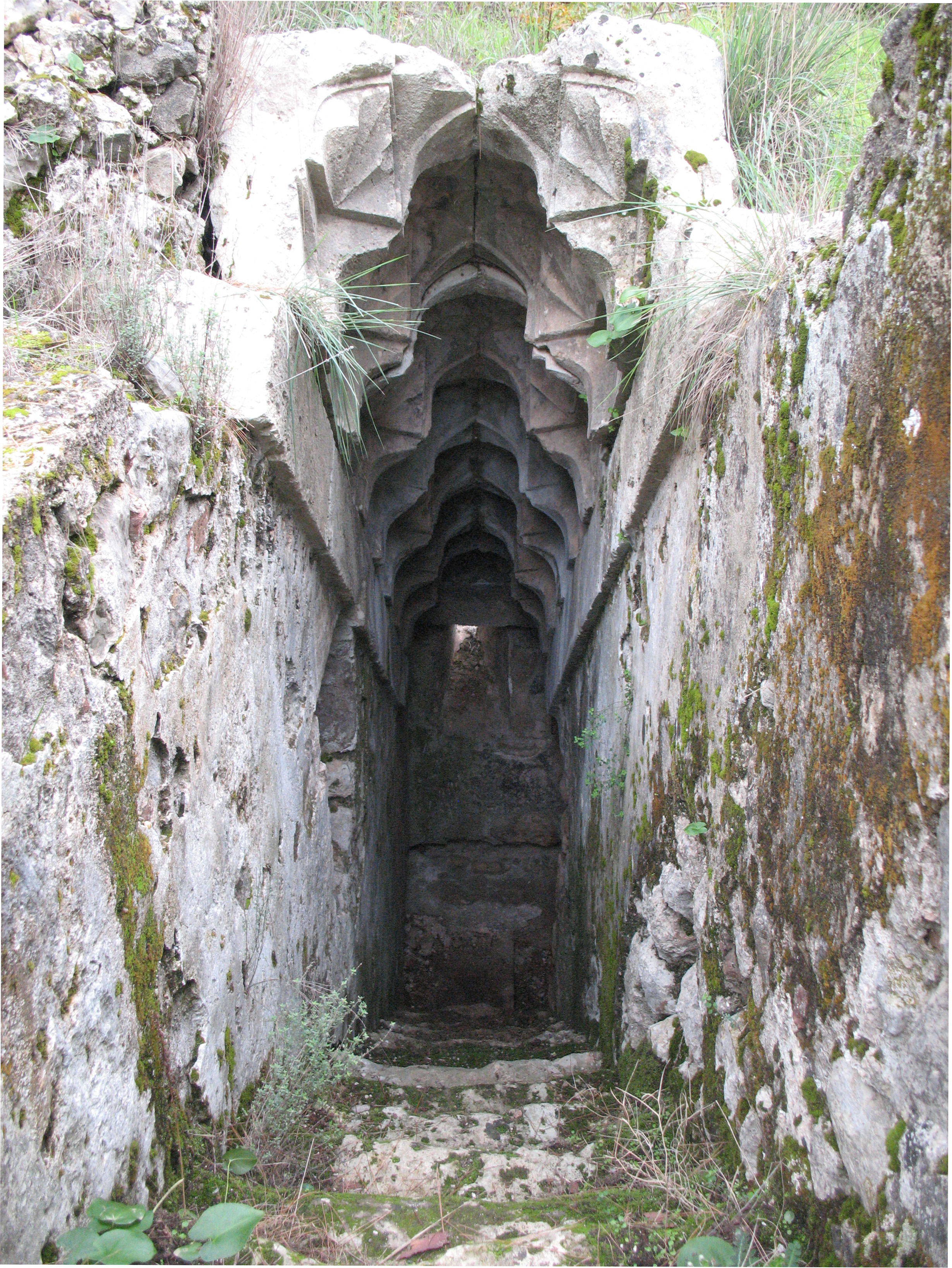 Seldjuk structure in Kemer, stairway, ceiling